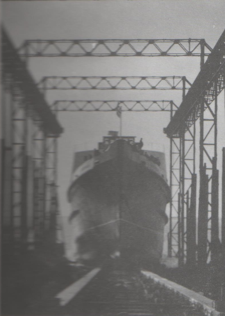 Fenella pictured at he launch at Barrow-in-Furness